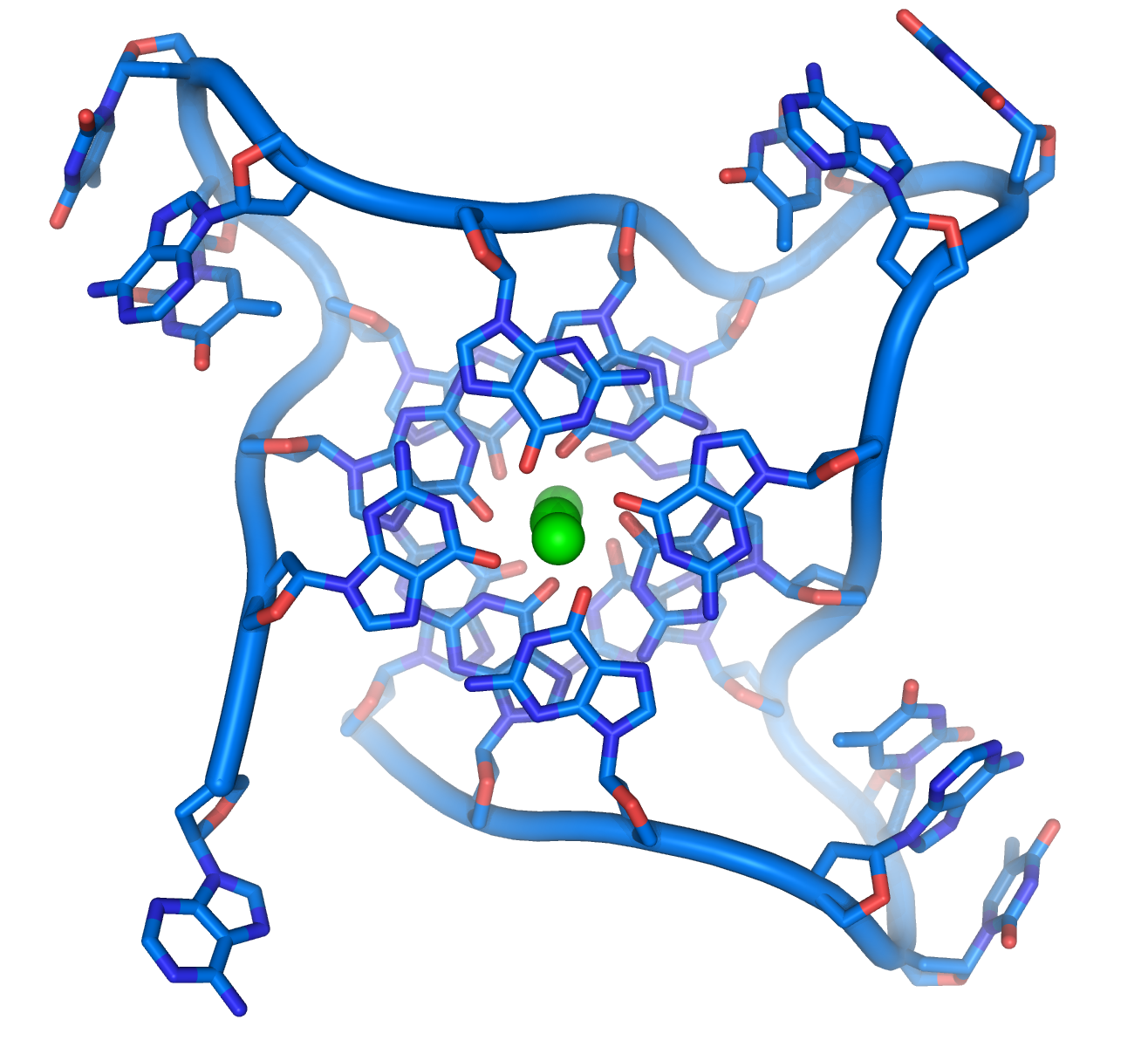 Crystal structure of parallel quadruplexes from human telomeric DNA. The DNA strand (blue) circles the bases that stack together in the center around three co-ordinated metal ions (green). Produced from NDB ID: UD0017